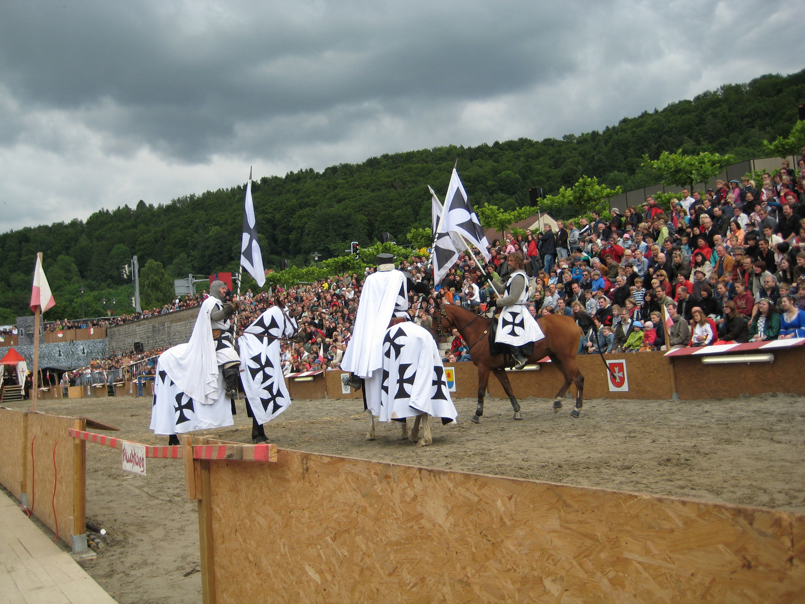 Actors playing the role of Teutonic Knights at the Maximilian Ritterspiele in Horb am Neckar, Germany, June 2010. Photo taken by W. B. Wilson.